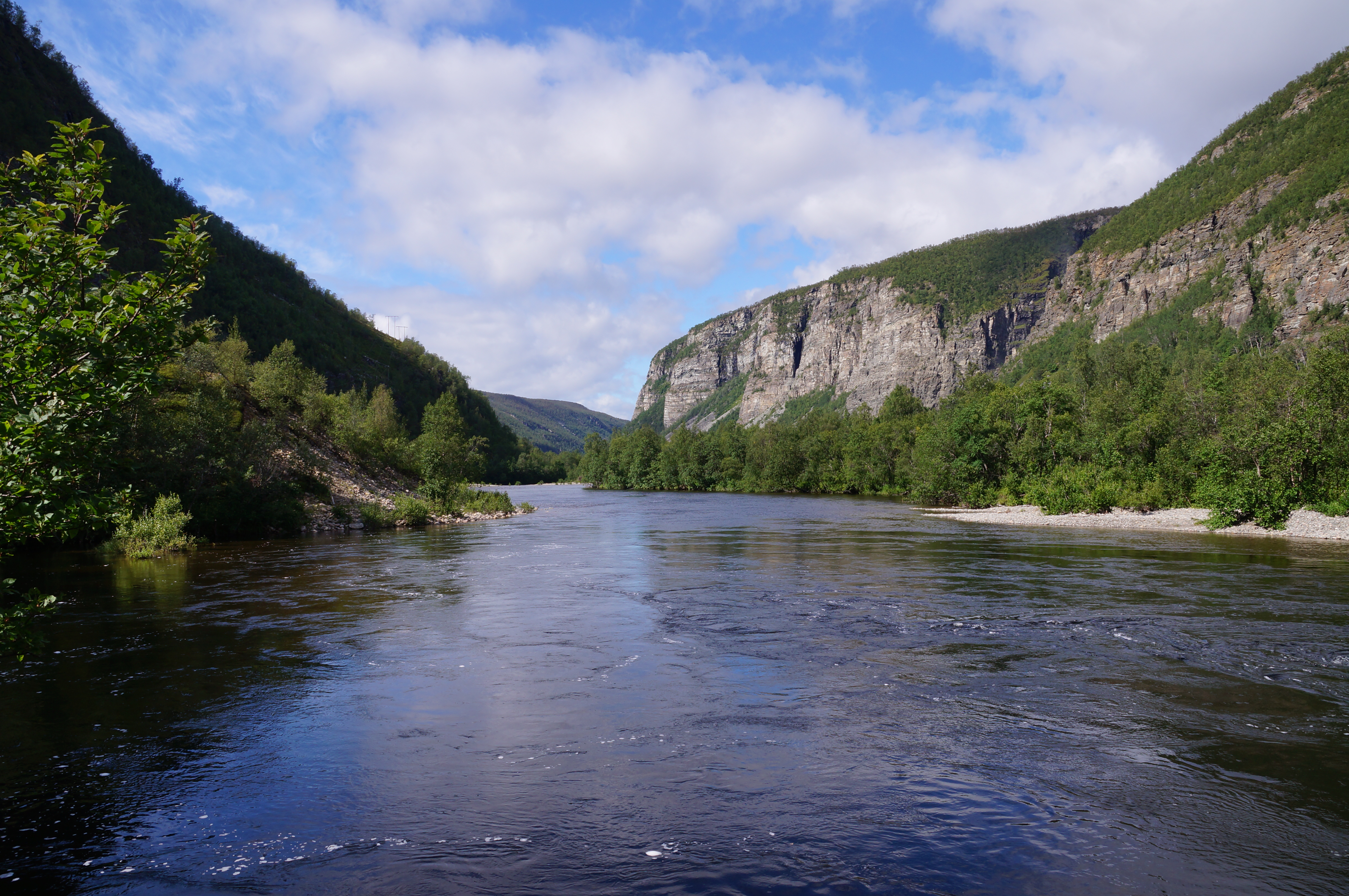 Reisadalen looking downstream